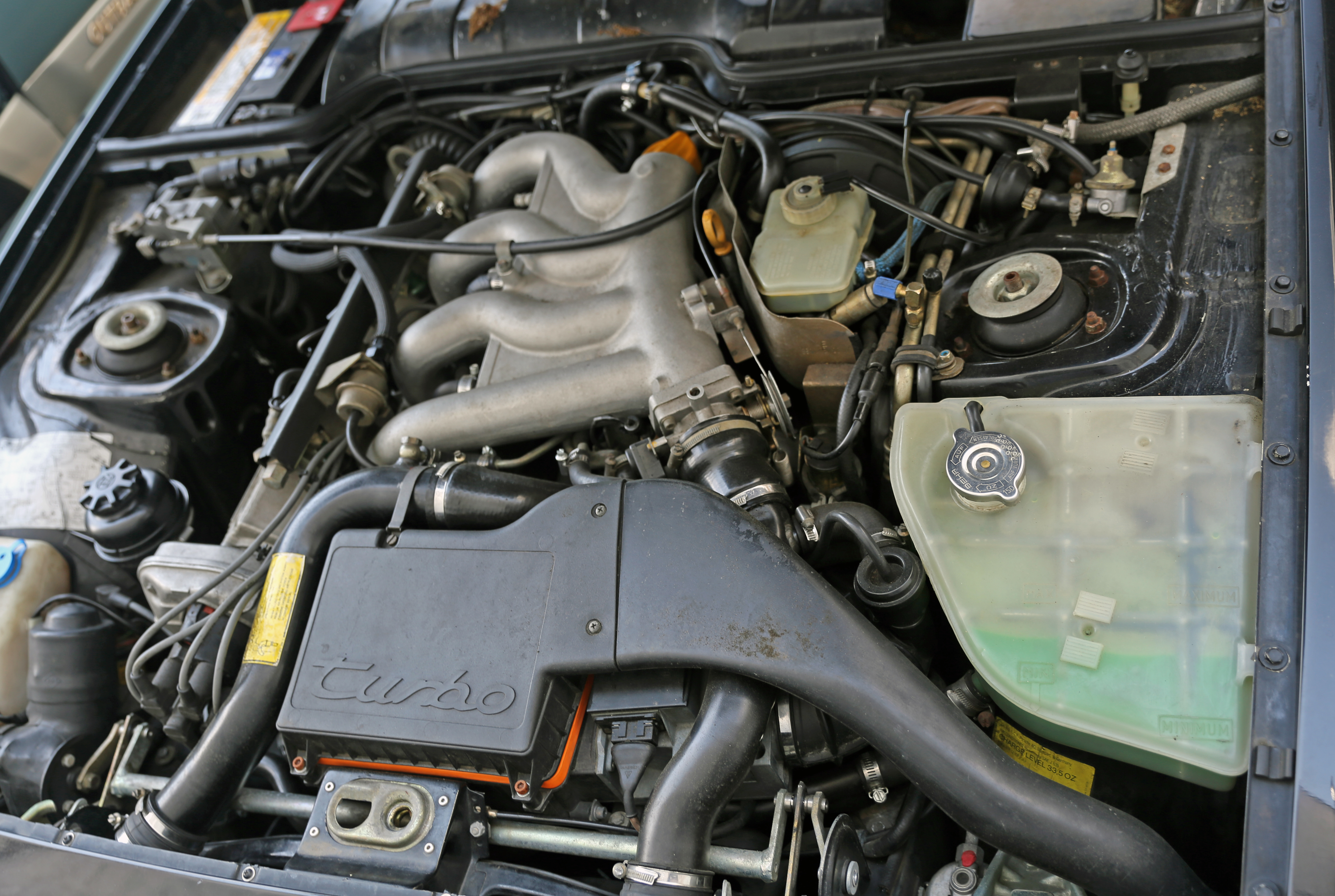 The four-cylinder 2.5 liter inline-four of a US-market 1986 Porsche 944 Turbo (951).